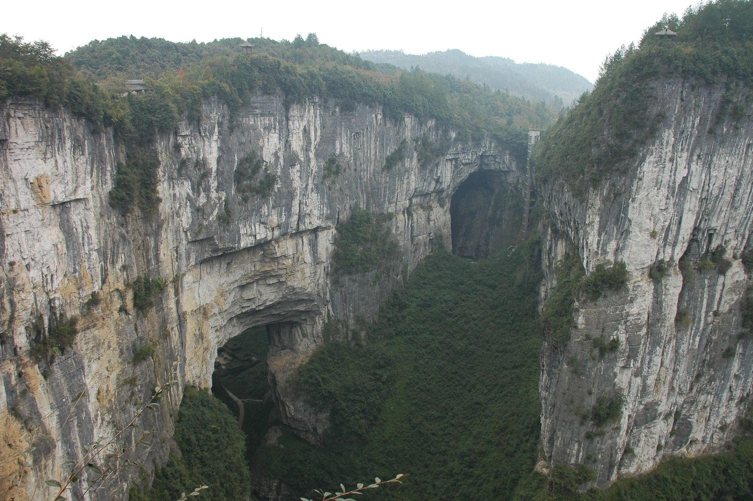 One of the three natural bridges at "Sanqiao Tiankeng" Three Natural Bridges. This is formed by roof collapse of a river cave. Located in Wulong， a provincial-level municipality of Chongqing (part of Sichuan Province prior to 1997).